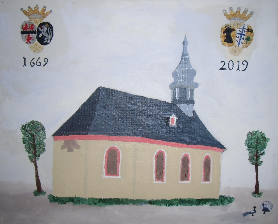 Painting 350 years Antonius chapel placed in Müddersheim by Alexander M. Freiherr von Randerath